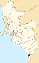 Map of Lima highlighting the district of Santa María del Mar Created by User:StarbucksFreak - Mar. 2005